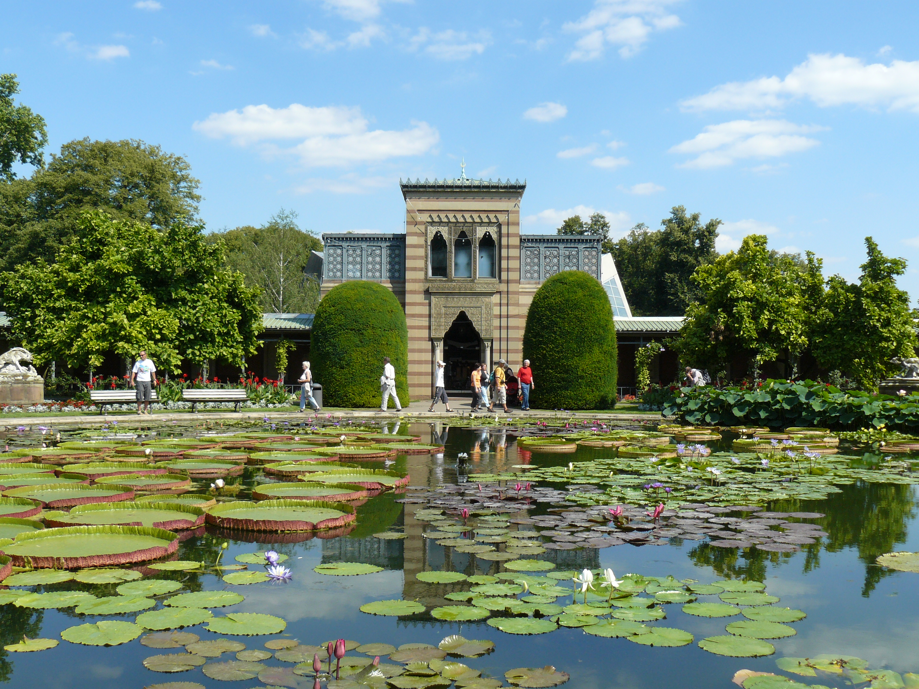 Wilhelma Zoo, Stuttgart, Germany.